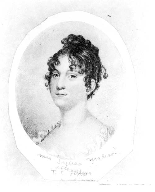 Sketch of Dolley Madison